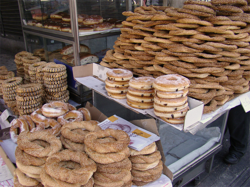 Athens, Greece.